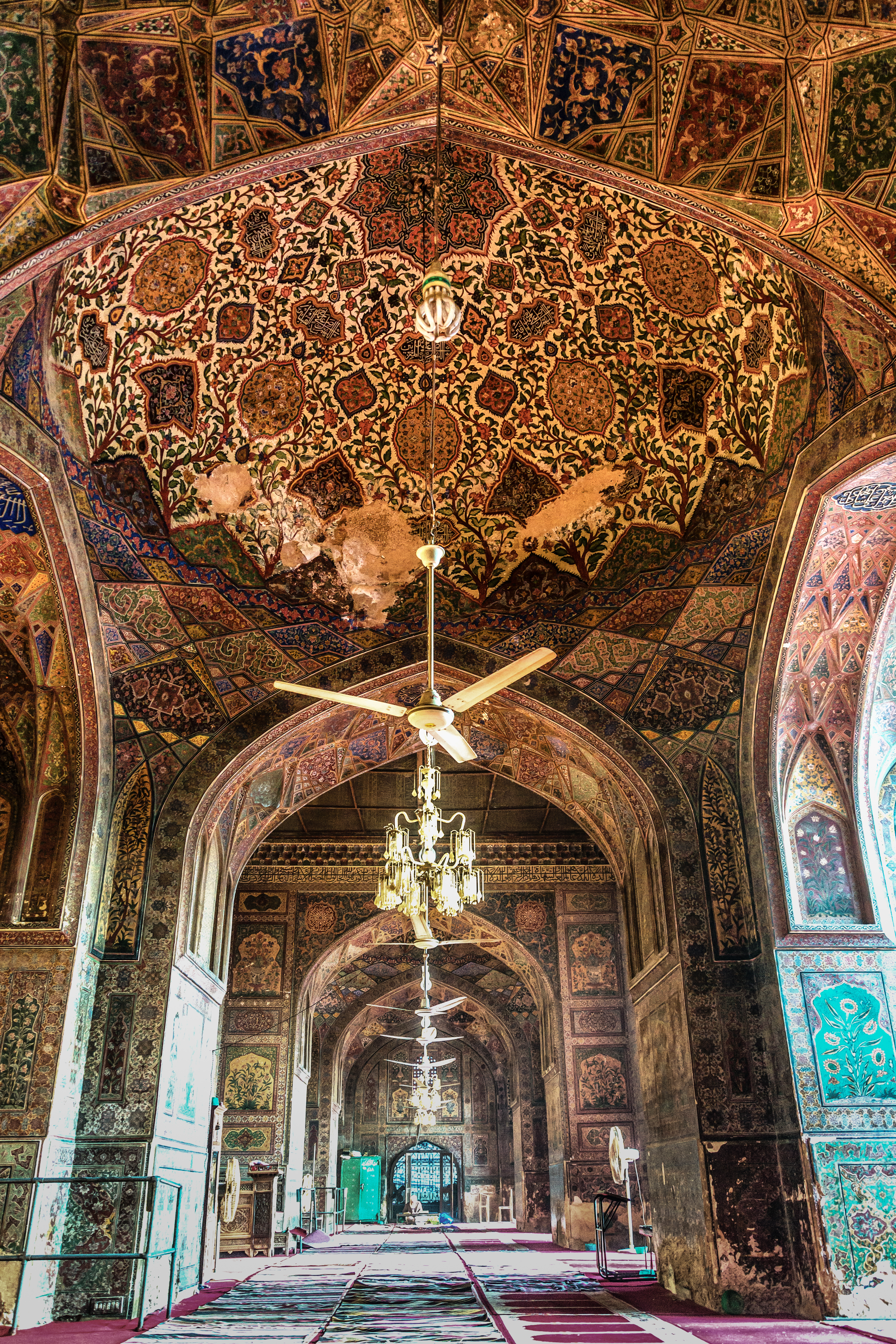 Wazir Khan Mosque This is a photo of a monument in Pakistan identified as the PB-100